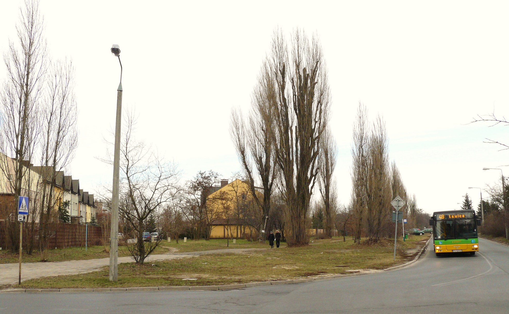 Leśnych Skrzatów Street in Poznań, Poland. MAN NL 283 bus (#1067), built 2005, MPK Poznań operator.